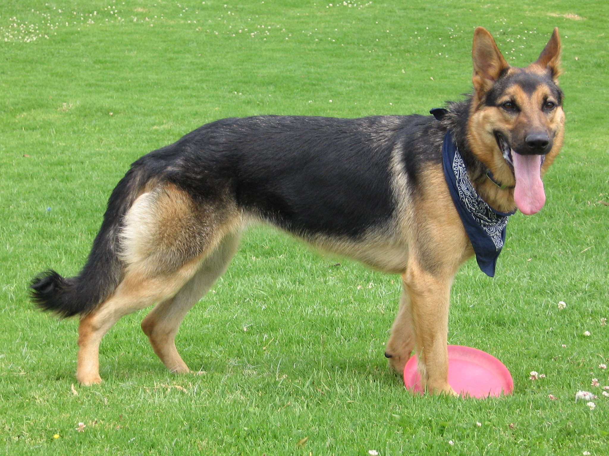 A German Shepherd Dog.